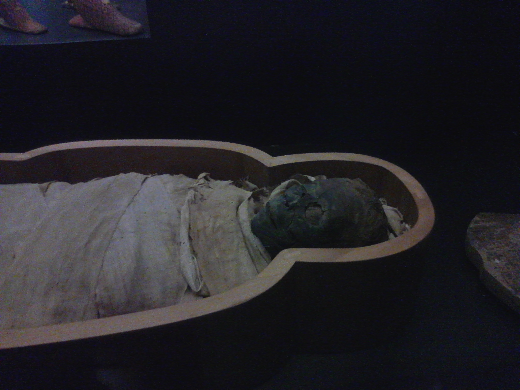 AAcmo